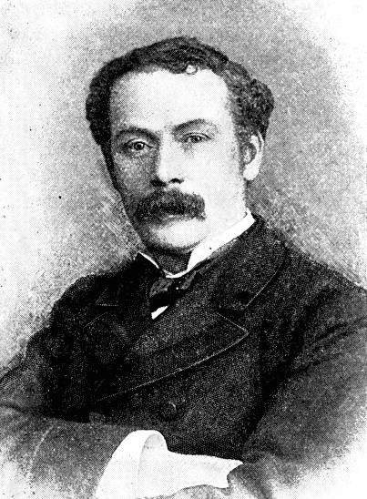 Caspar Purdon Clarke (1856-1911) 2nd Director of the Metropolitan Museum of Art